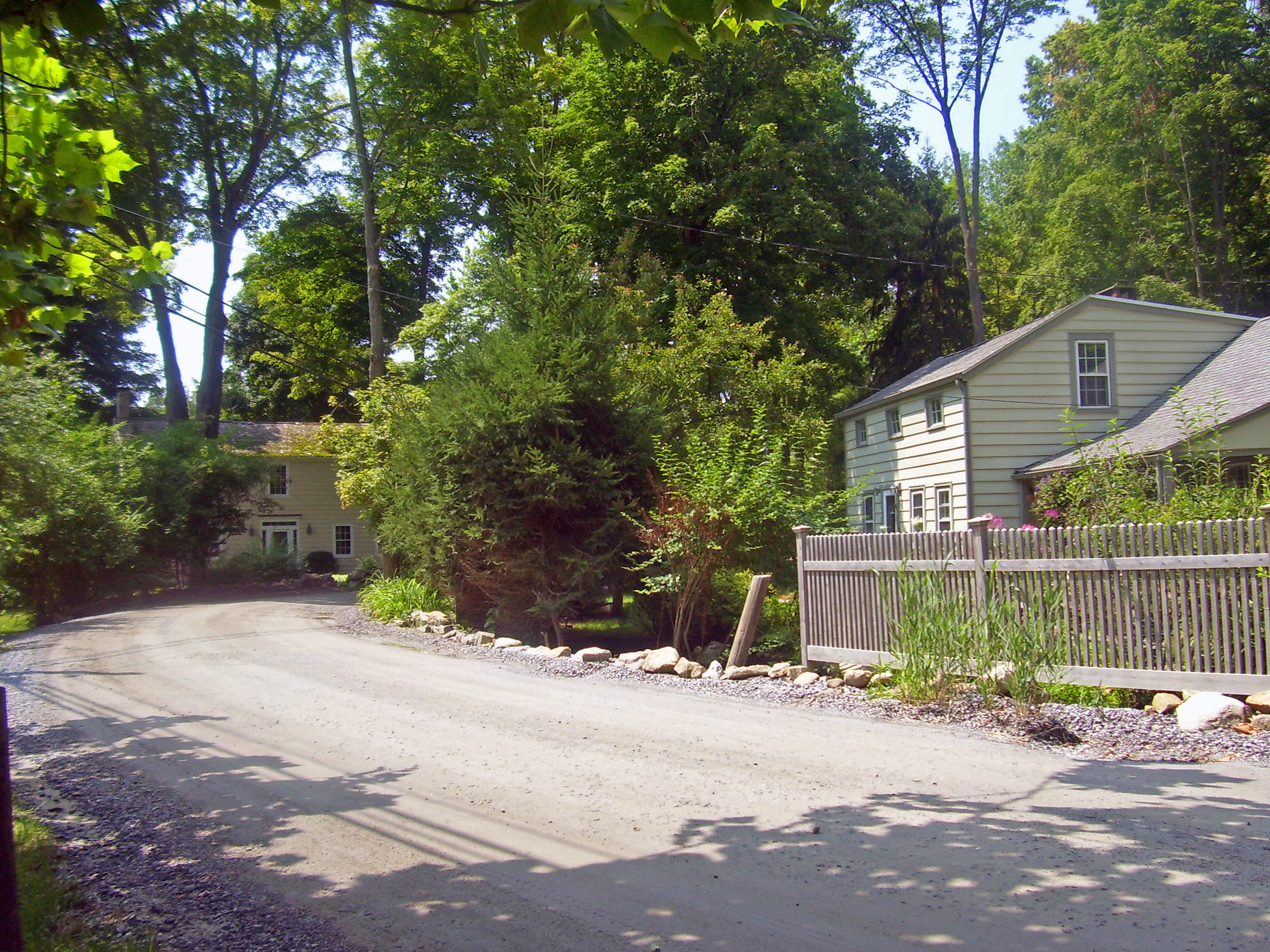 Part of Indian Brook Road Historic District, Garrison, NY, USA